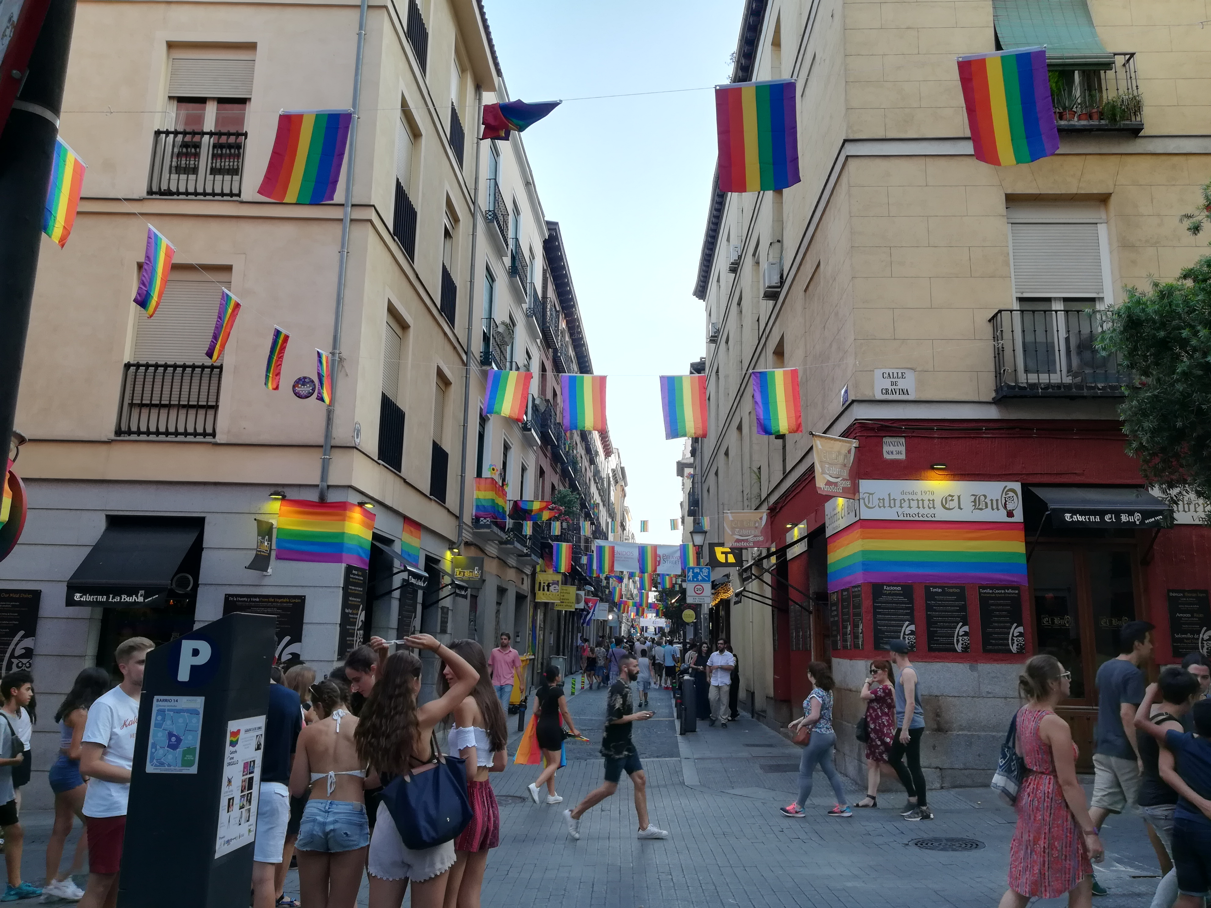 The picture shows the crossroad between Gravina street and Pelayo street in Chueca neighbourhood, Madrid, decorated with rainbow flags during the celebrations of the WorldPride 2017.